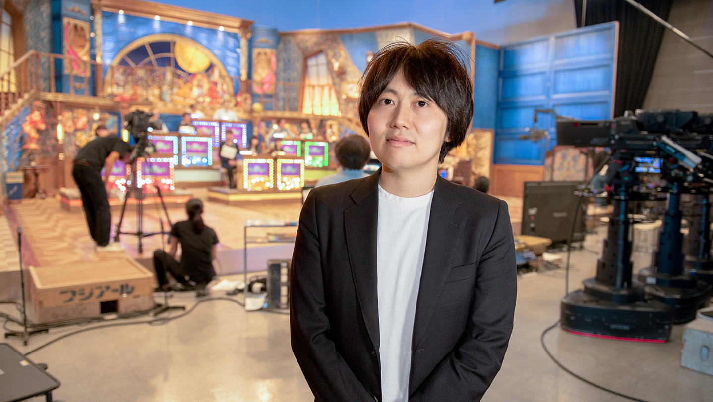 木月洋介（2019年撮影）